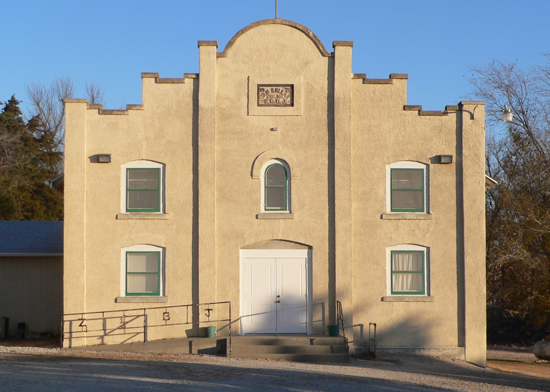 Rad Jan Kollar cis 101 Z.C.B.J. hall, located on county road 706 in rural Pawnee County, Nebraska, northwest of Dubois, Nebraska; seen from the south.